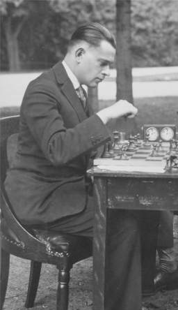 Salomon Landau (1903-1944) vs. Count Johannes van den Bosch (1906-1994), c. 1930.